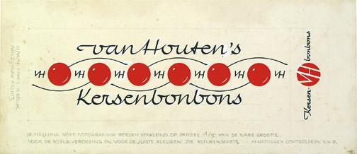 Design for wrappers of Van Houten cherry chocolates (1927) by Austrian-Dutch designer Stefan Schlesinger